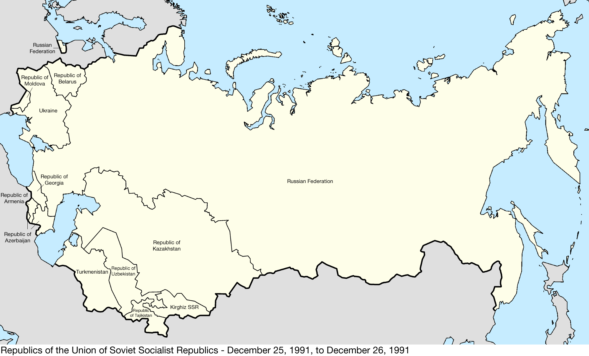 Map of the Soviet Union from December 25, 1991, to December 26, 1991.